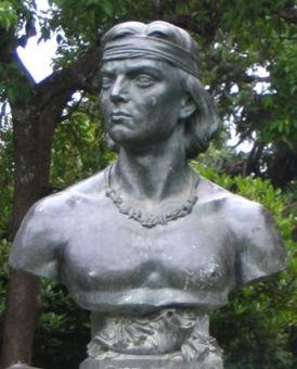 Bust of Lautaro in the Plaza of the town of Cañete, Chile. Photo by GringoInChile